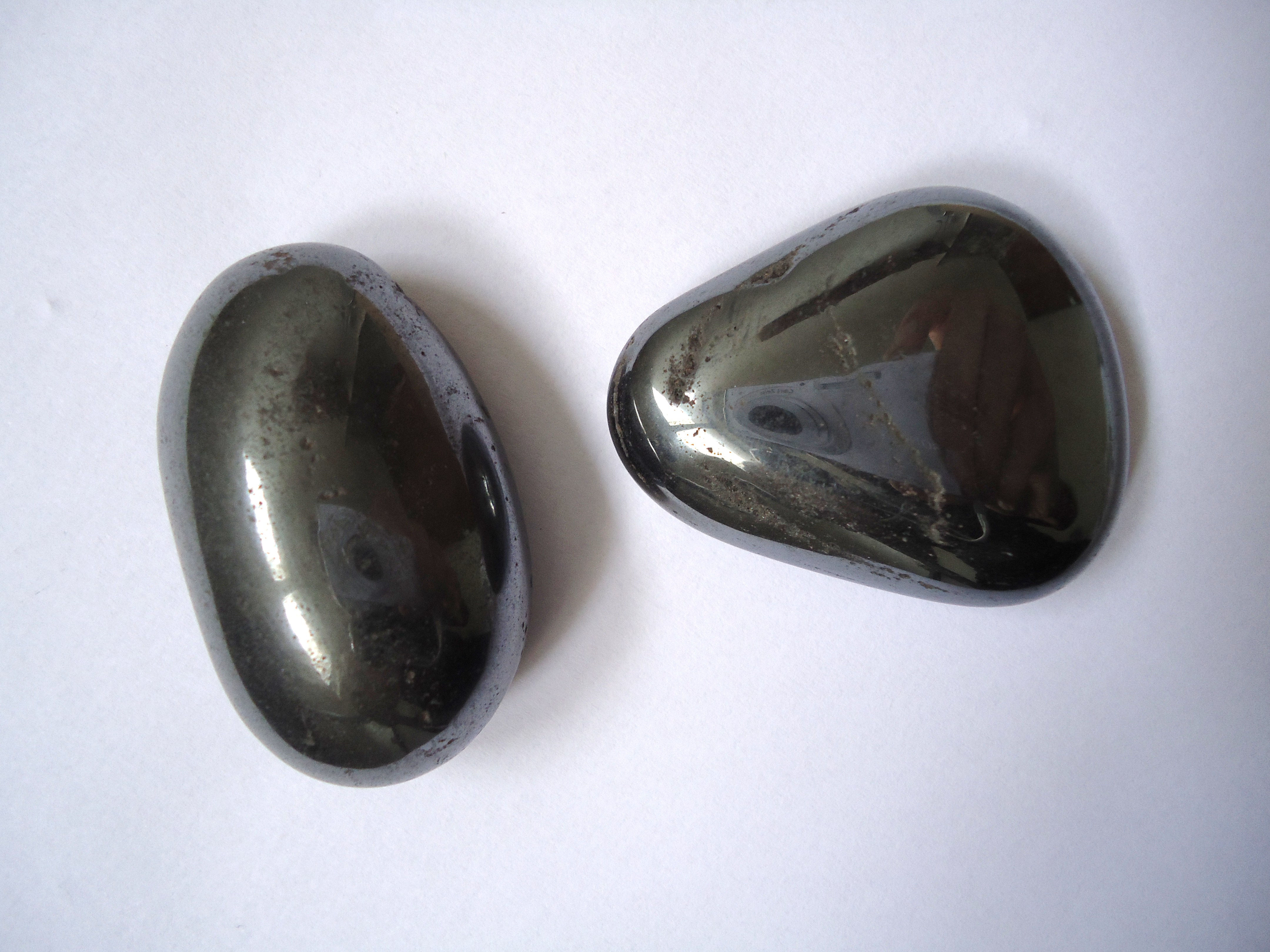 Hematite pebbles. Photo : Mauro Cateb